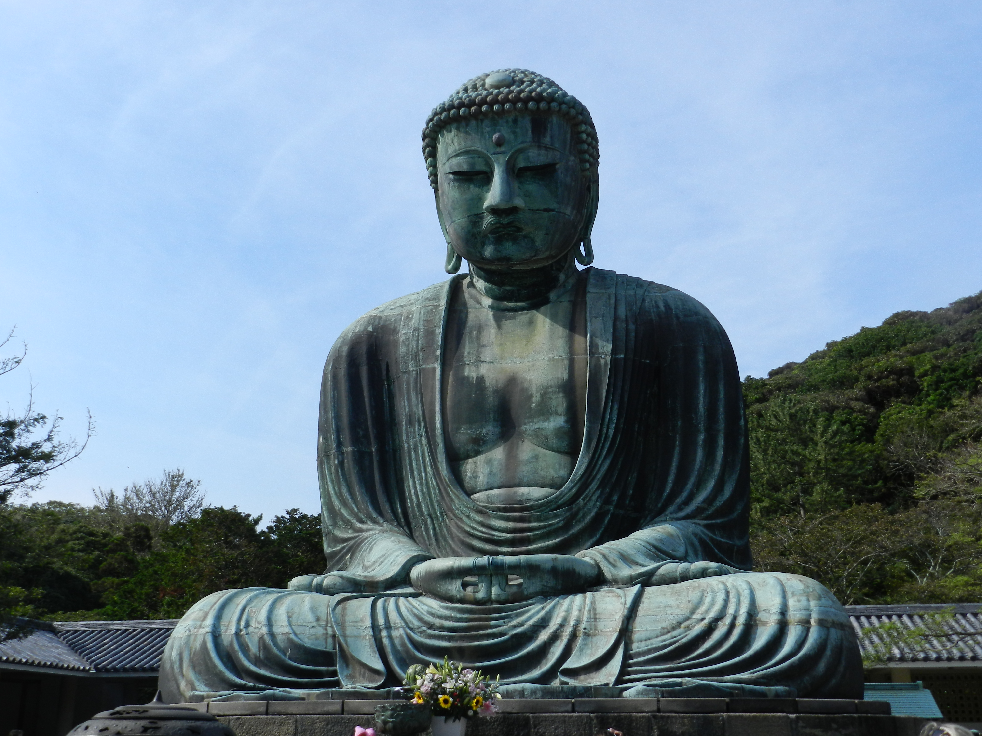 The Daibutsu of Kamakura, Prefecture Kanagawa, Japan